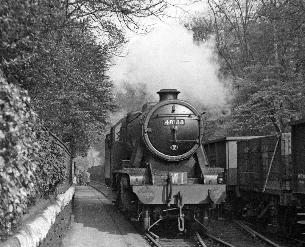 Stanier 8F 2-8-0 on the Crewe Works internal railway. The 2-8-0, No 48133 (built 1941, withdrawn 11/66) is on Works Pilot job W1, running on what was originally (before the great expansion of the Works in July 1878) the main Crewe - Chester line but by the time of this photo formed part of the internal railway lines of the works. The view is eastward, between Flag Lane and Chester bridges. The occasion was a visit by the Railway Correspondence & Travel Society; some of whom can be glimpsed ahead, outside the entrance to the General Offices.